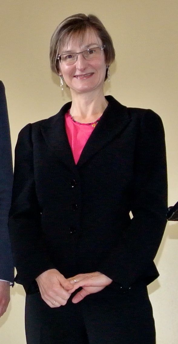 Muffy Calder before giving a lecture on April 8, 2013, in Upper College Hall, University of St Andrews, Fife, UK